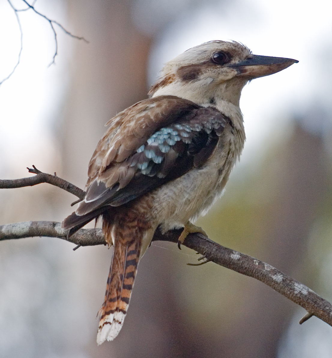 This photo of a Kookaburra was taken on the 4th of December, 2004 in Pound Bend, Warrandyte, Victoria, Australia. I am not under any illusions that the photo is a critically sharp but hopefully it serves its purpose. Canon 10D, 70-200mm f/2.8L @ f/2.8, 1/500s